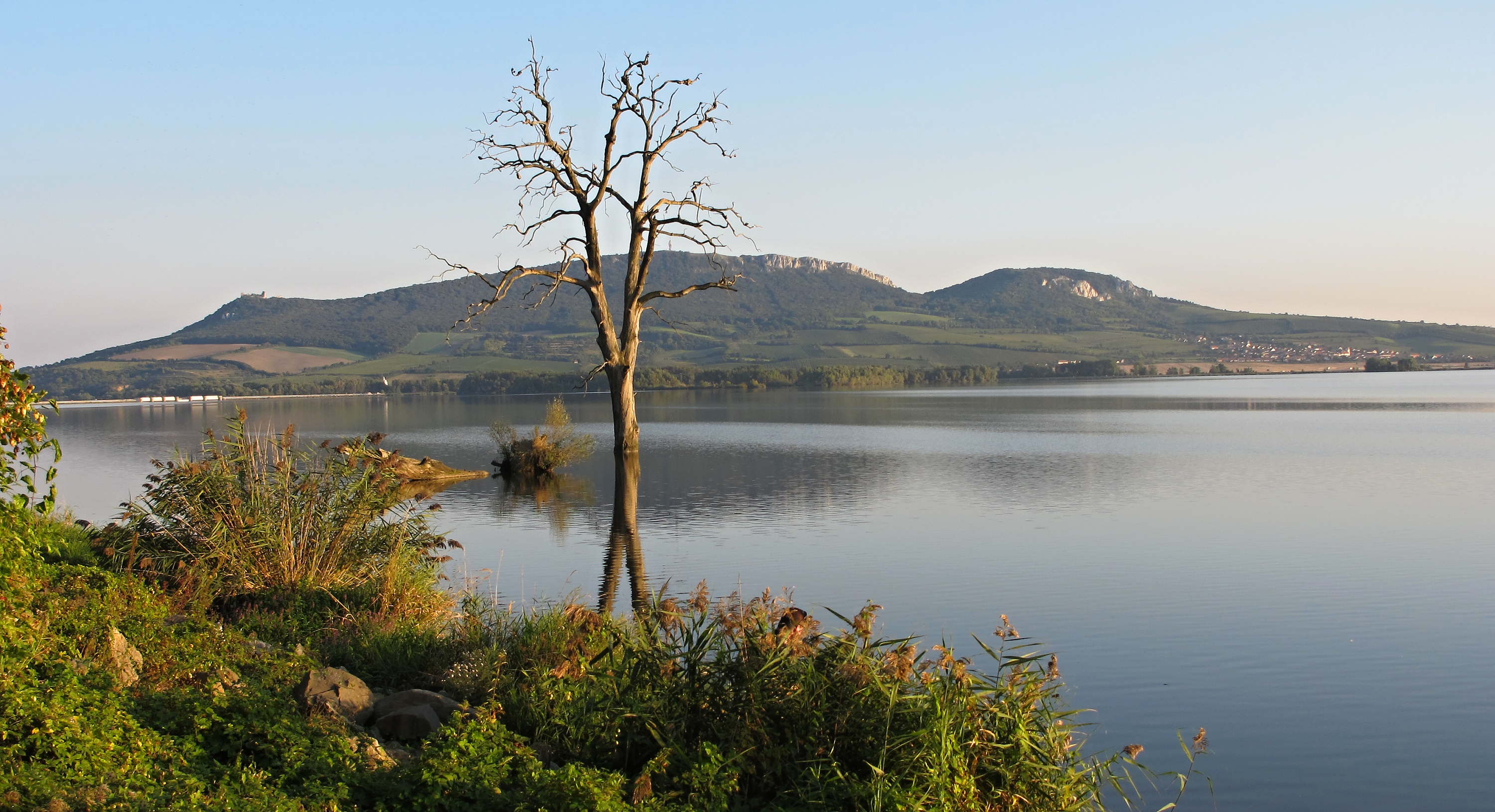 Věstonice Reservoir (south part of the Moravia)